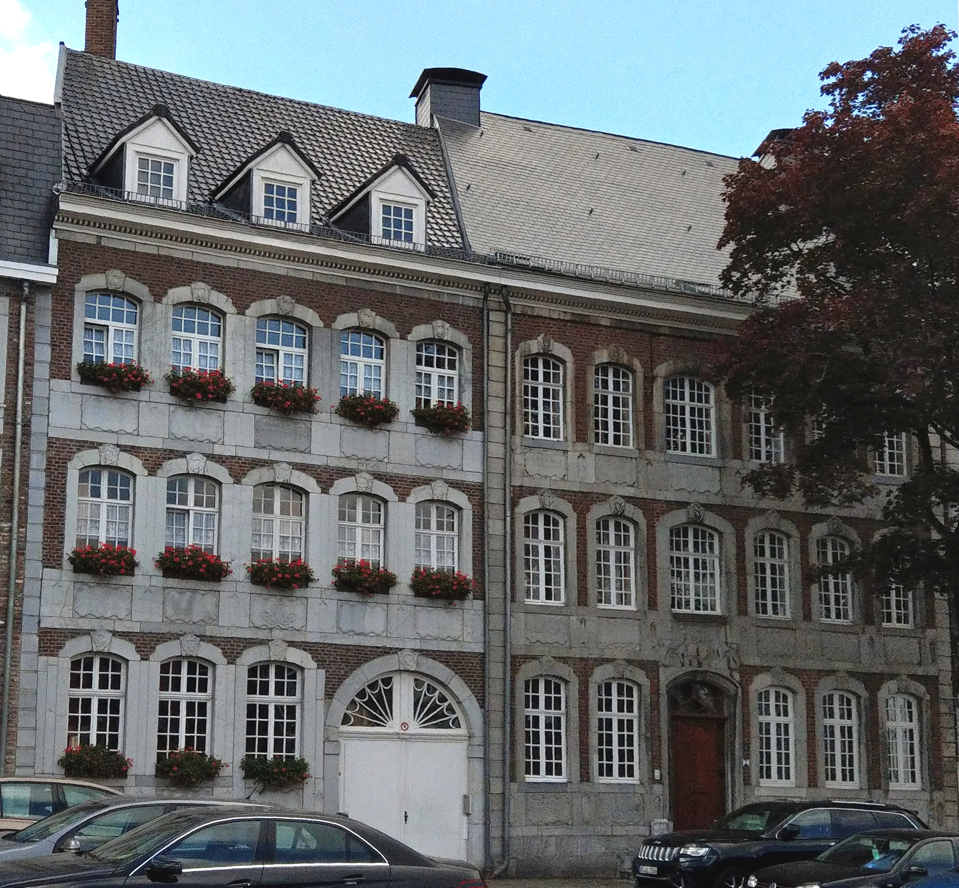 Explanations and history, see category.